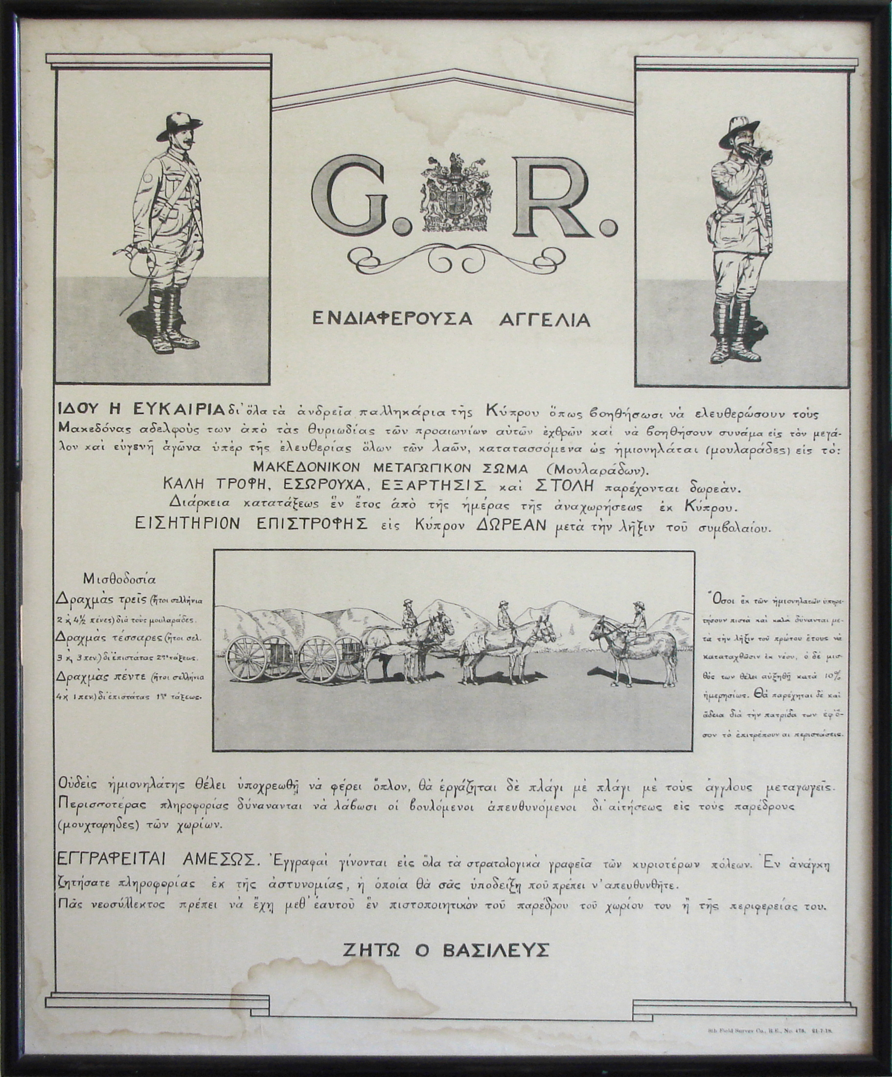 A recruitment poster urging Cypriots to enlist into the Macedonian Mule Corps. Patticheion Museum, Limassol.